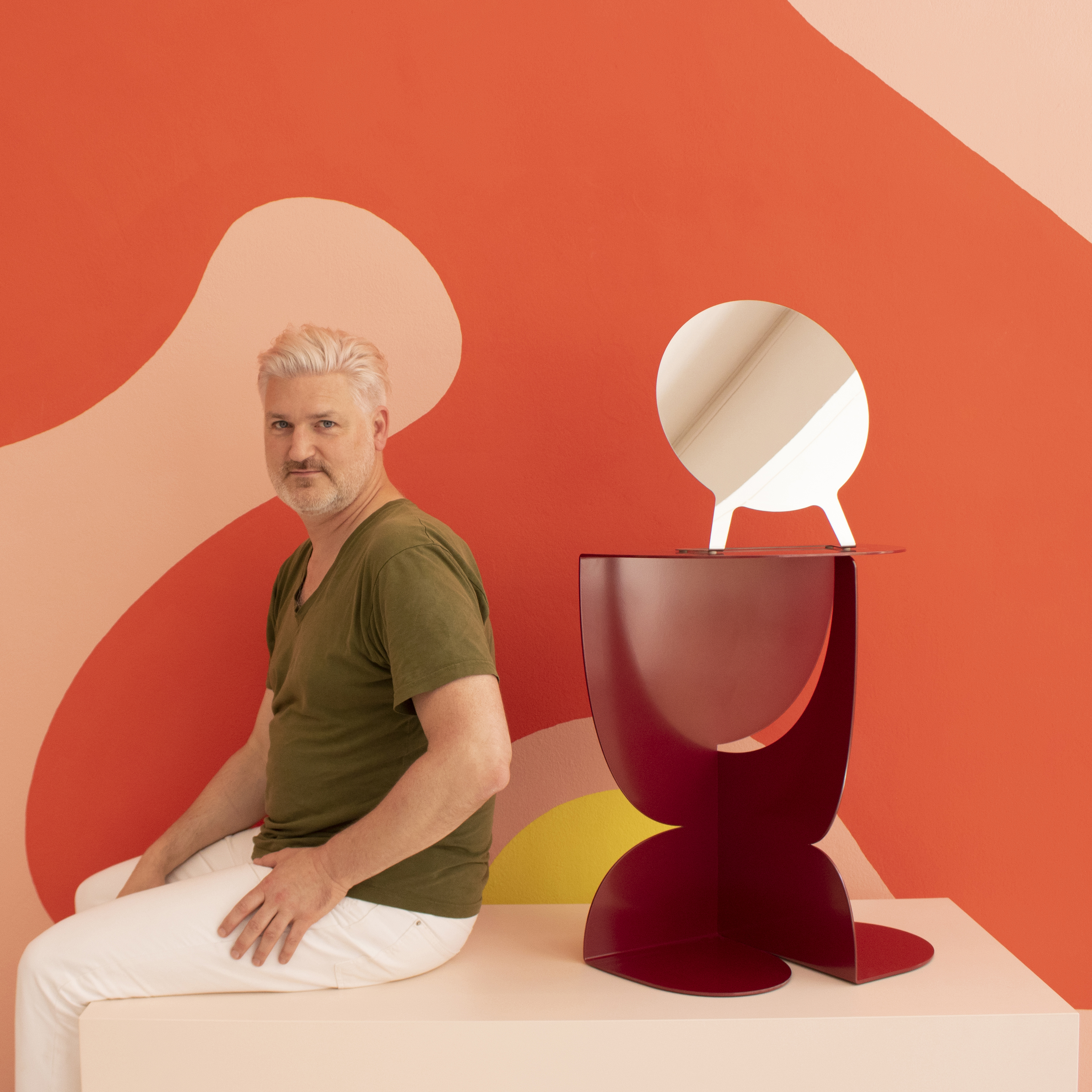 Philippe Cramer in his studio with creations "Gong" miroir and "Drawing in space" side table.